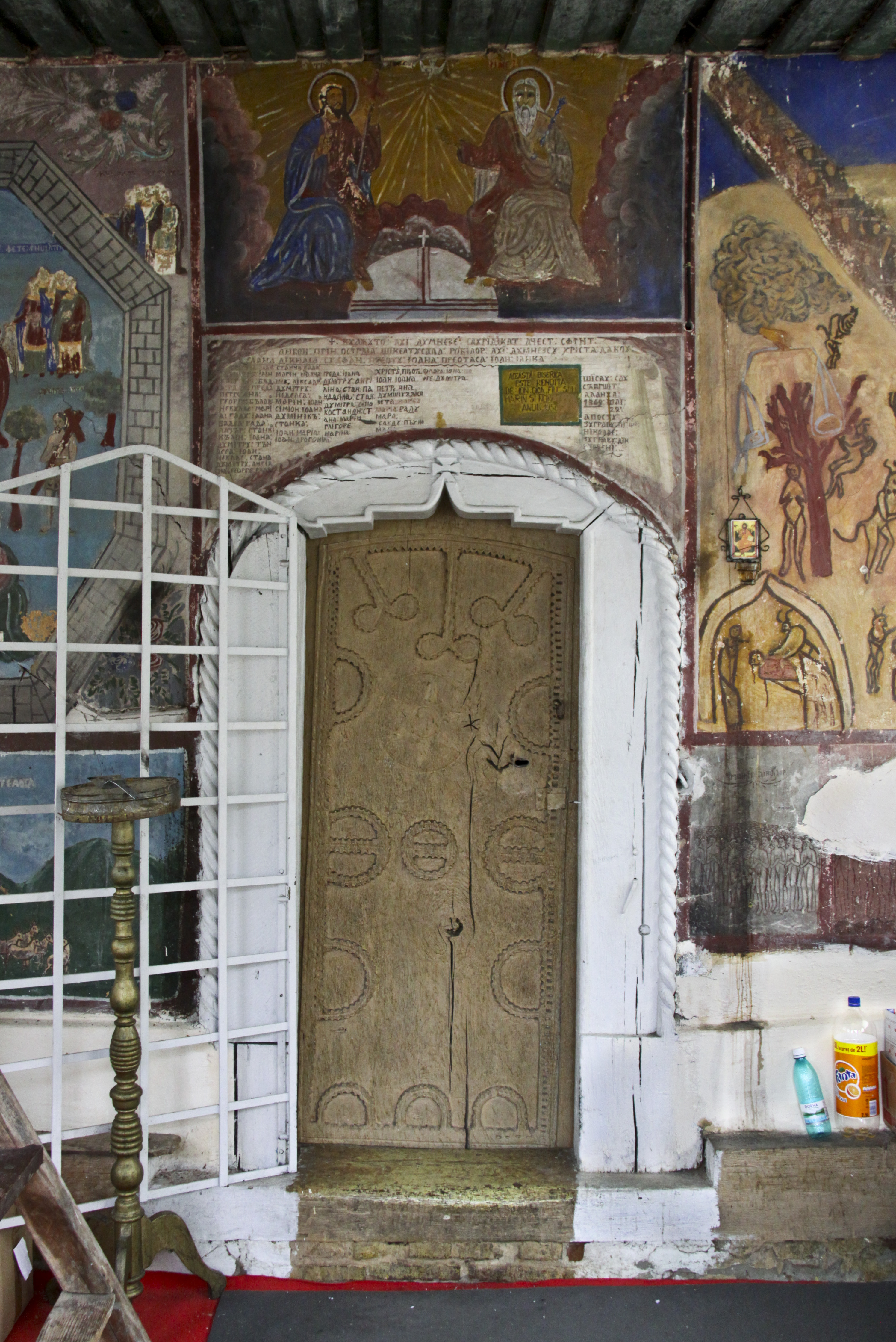 Glâmbocu, Argeş county, Romania: the wooden church.